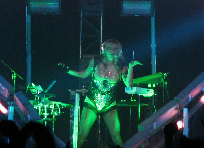 Kesha Hordern Pavilion Australia